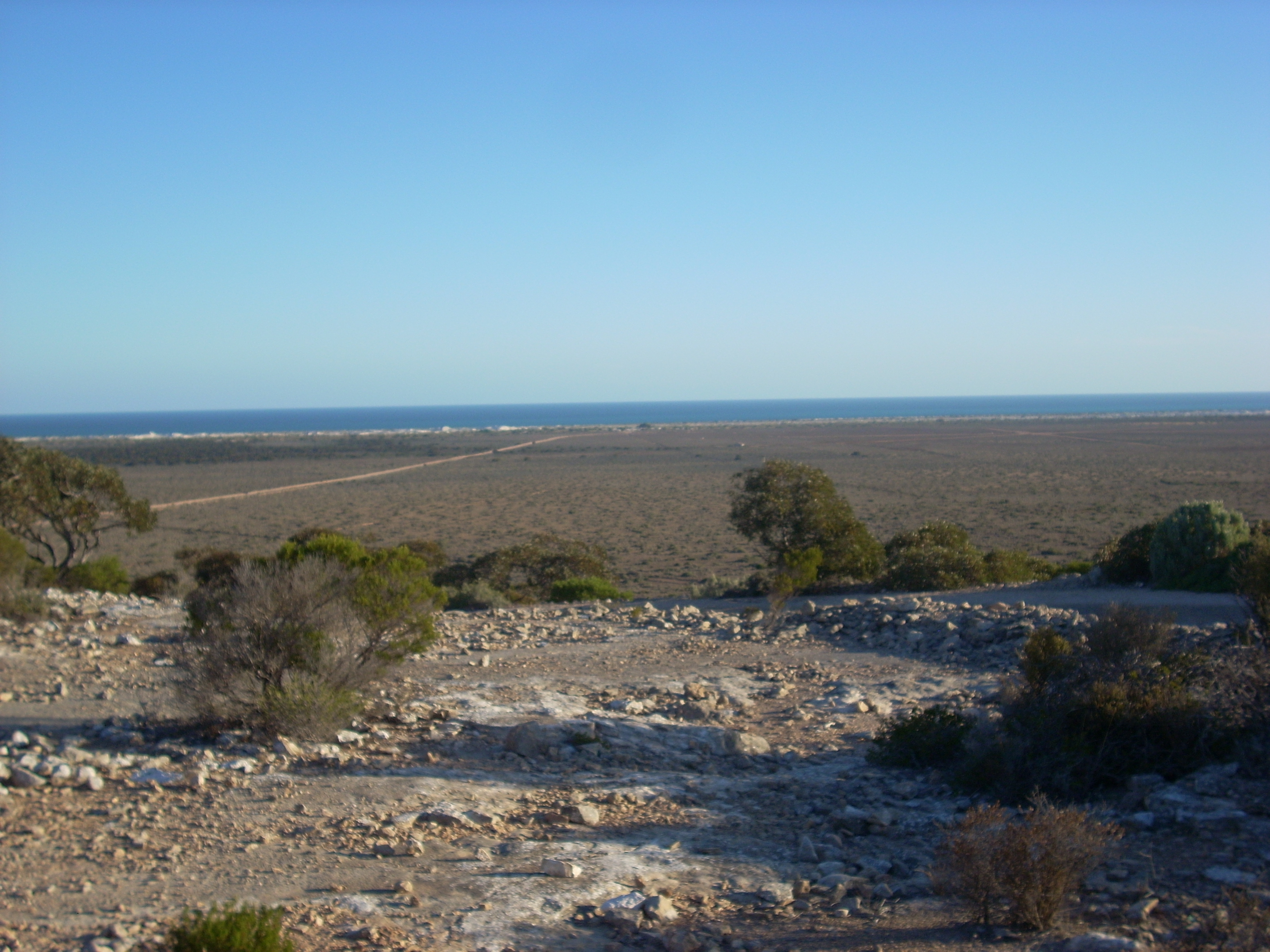 Eucla coastline from top of the Eucla pass, Western Australia